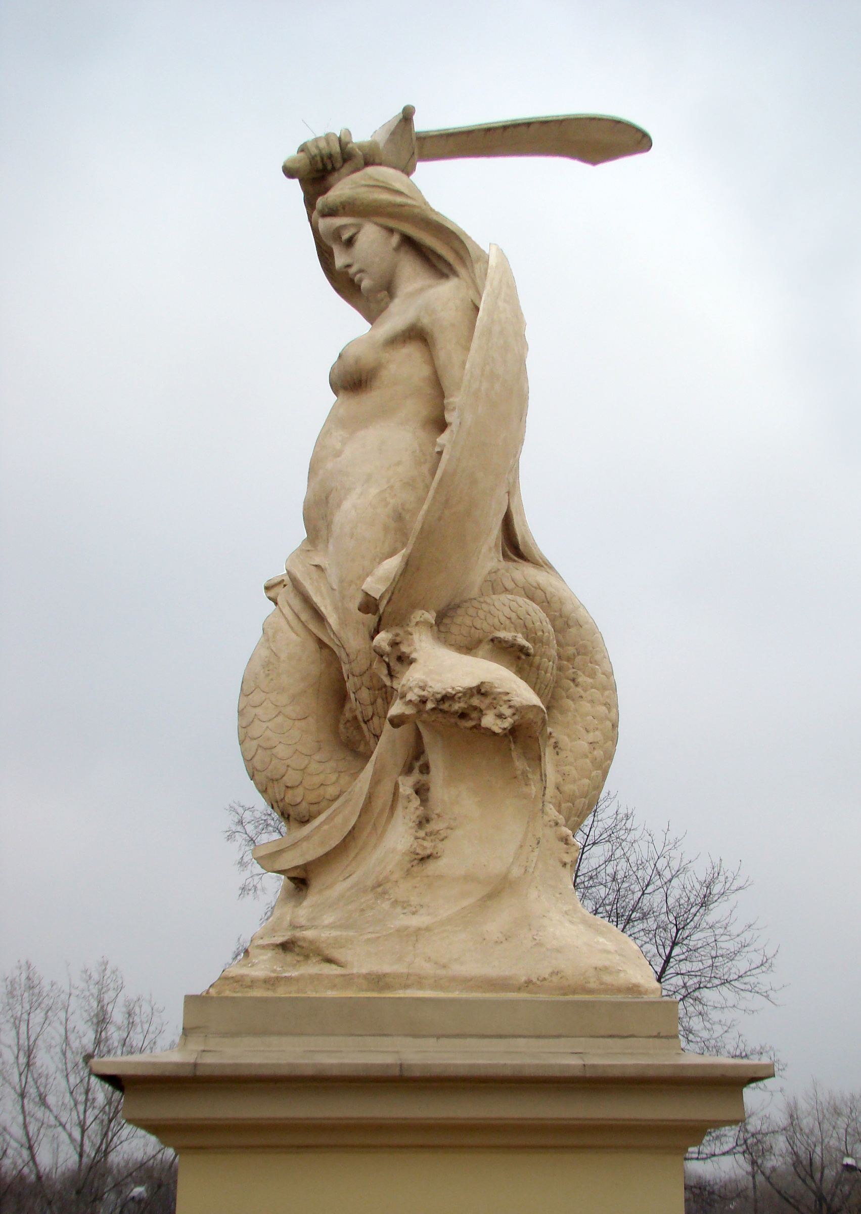 Markiewicz downward slope, sculptural adornment, emblem of the City of Warsaw